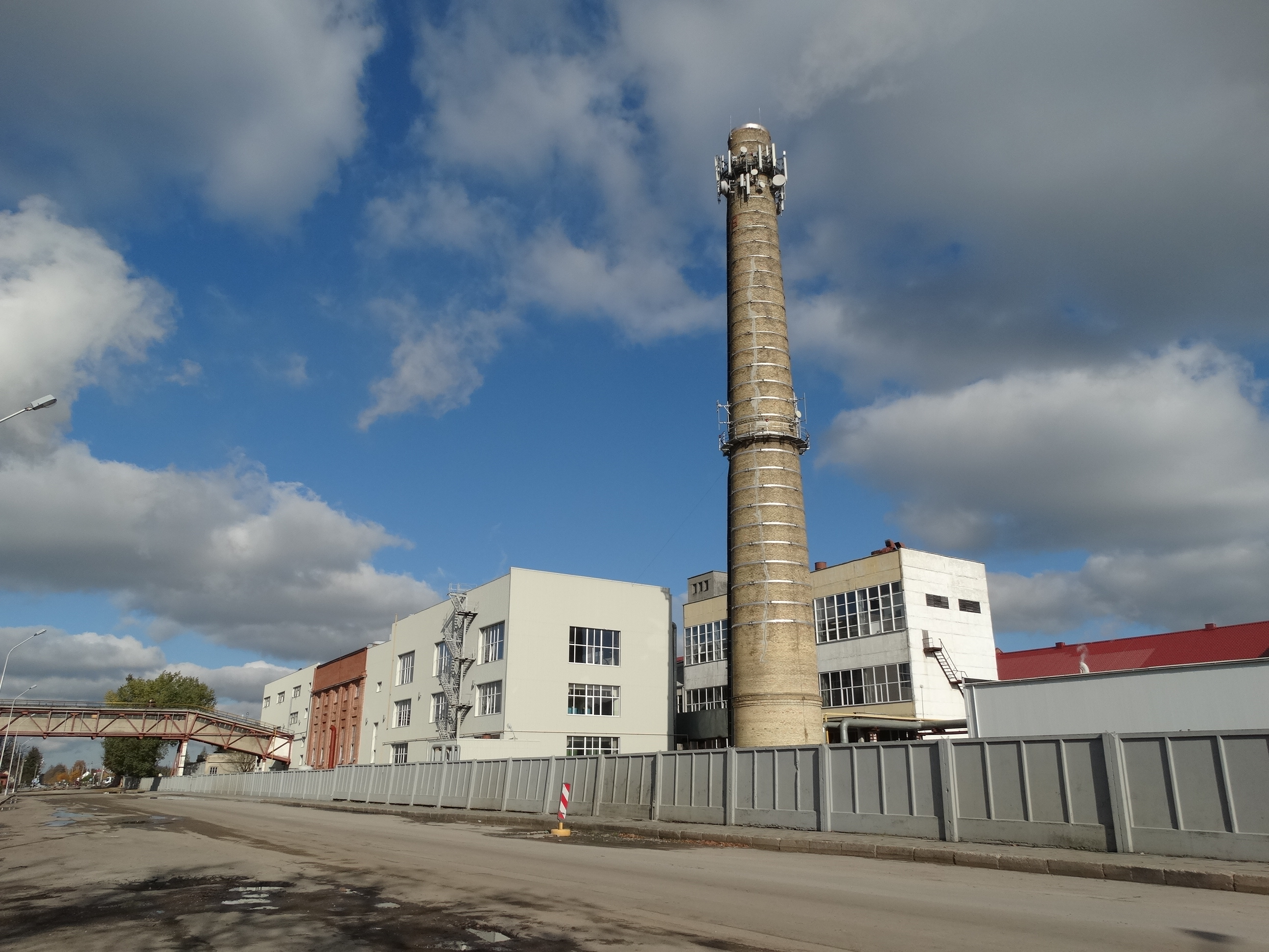 Sugar plant, Marijampolė, Lithuania